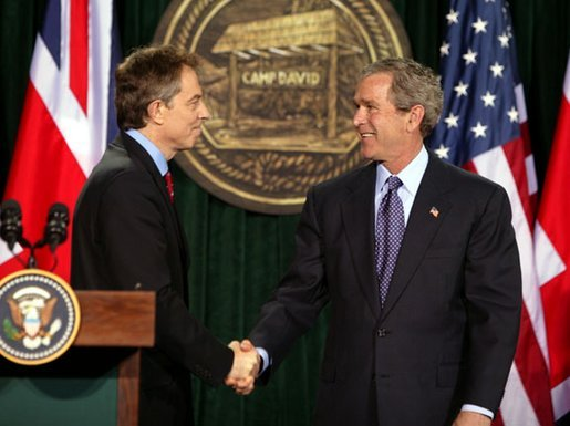 Then Prime Minister of the United Kingdom, Tony Blair shaking hands with President of the United States, George W. Bush, after they conclude a joint news conference at the Camp David